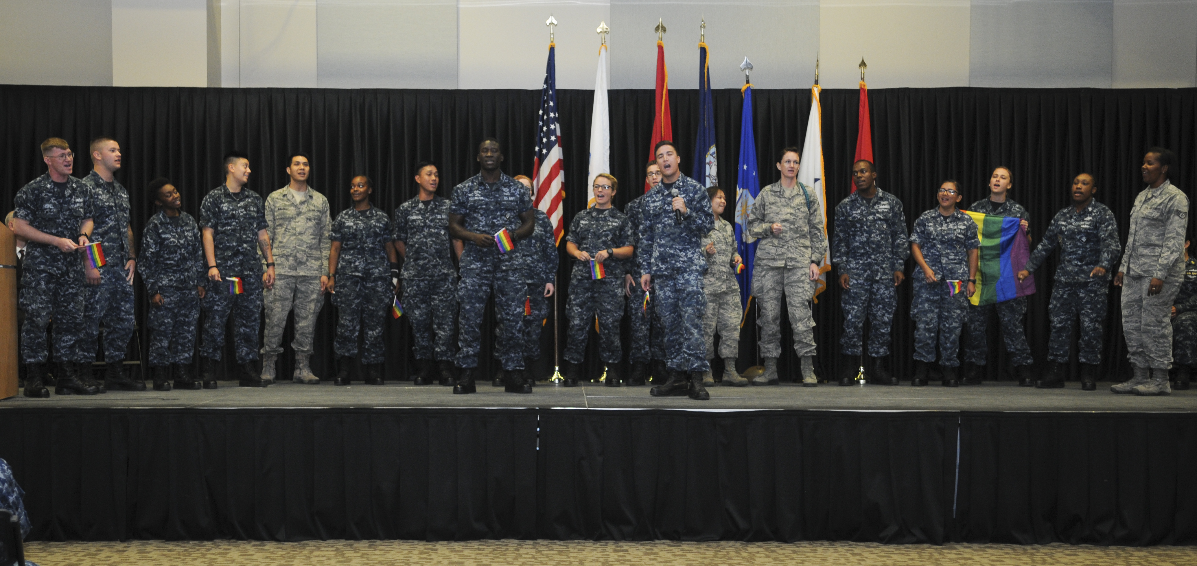 SAN ANTONIO (June 13, 2017) The Basic Medical Technician and Corpsman Program choir sing during a Lesbian, Gay, Bisexual and Transgender (LGBT) Pride Month celebration at Joint Base San Antonio - Fort Sam Houston, Texas. The ceremony, co-hosted by Navy Medicine Education, Training and Logistics Command and Army’s Mission Installation Contracting Command, included several speakers and presentations to highlight struggles faced and efforts made by service members in the LGBT community. (U.S. Navy photo by Mass Communication Specialist 1st Class Jacquelyn D. Childs/Released) Unit: Navy Medicine Education and Training Command DVIDS Tags: Navy Medicine; Navy; Fort Sam Houston; LGBT; Pride Month